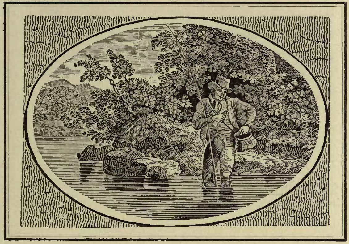 The Angler and The Little Fish a Thomas Bewick woodcut from Memorial Edition of Thomas Bewick's works - Aesops Fables Vol IV (1885)